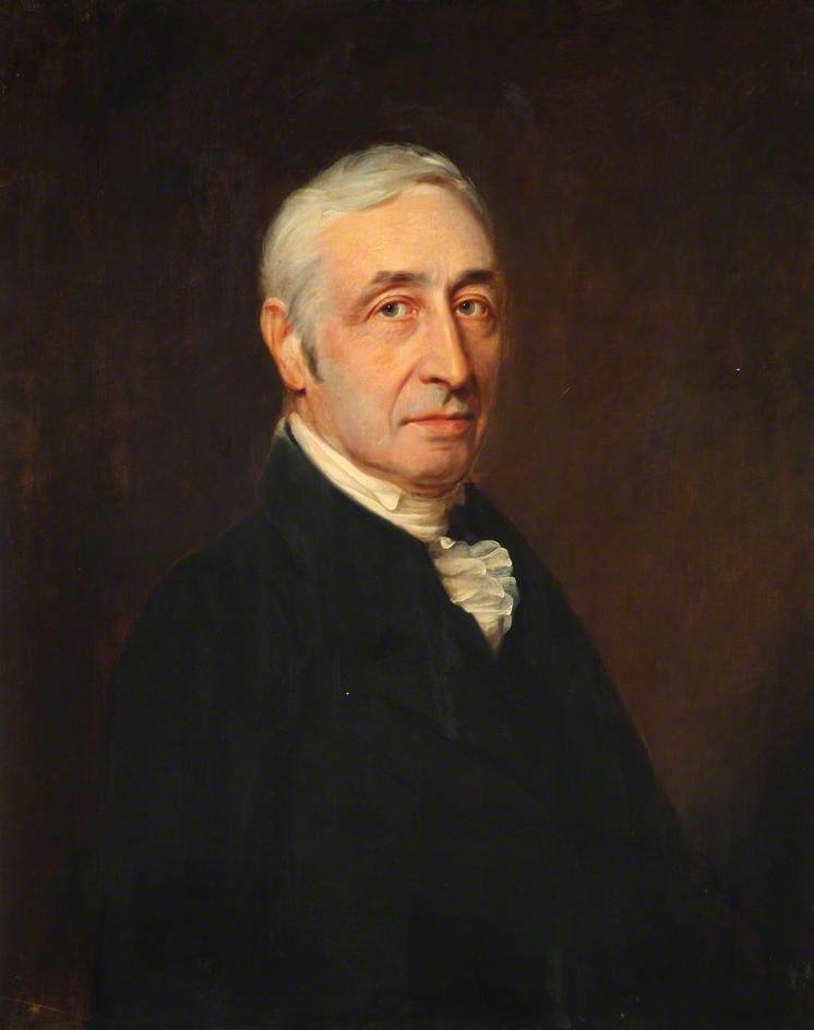 An oil-on-canvas portrait of Joseph Tucker (c. 1760–1831), Surveyor of the Navy.